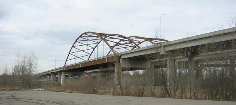 The Cedar Avenue Bridge over the Minnesota River between Bloomington and Eagan, Minnesota.